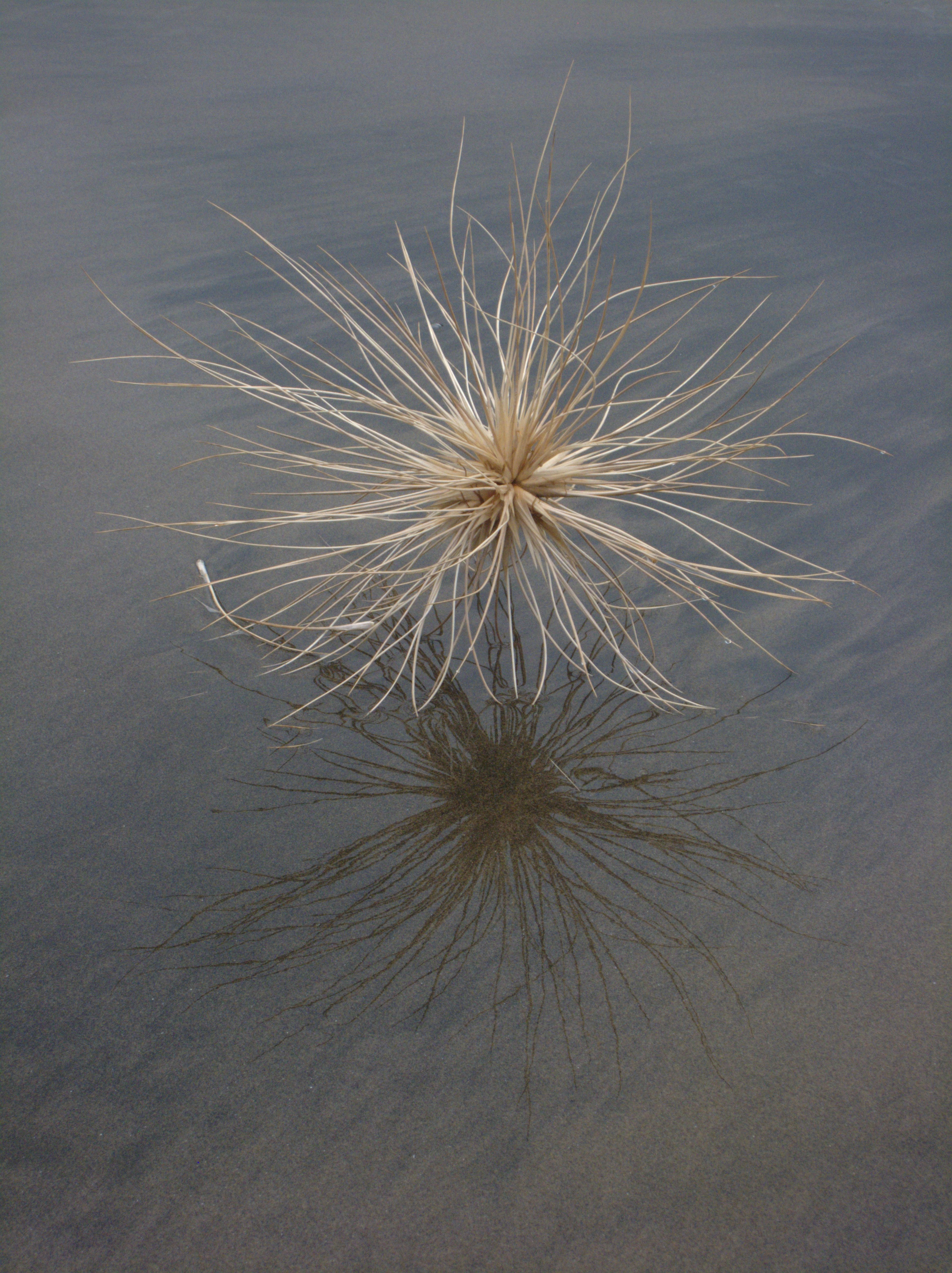 Seed head of Spinifex sericeus, on Karekare beach, near Auckland, New Zealand.